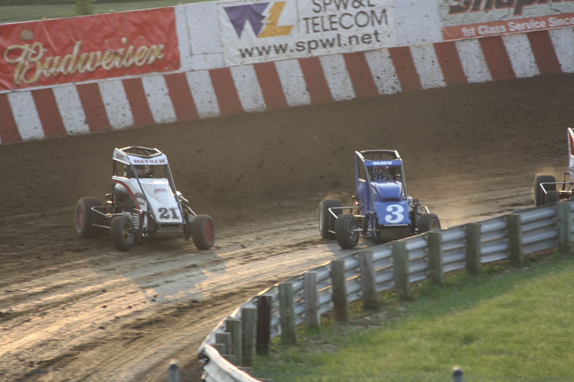 Midget car racing out of turn 4 at Angell Park Speedway in Sun Prairie, Wisconsin. It ended up being the final regular season event for 2010; the season was halted by the sanctioning body.